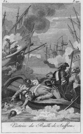 "Victory of Suffren". Engraving of 1821, without details on the battle, taken from the "Illustrations of the beauties of the history of India".